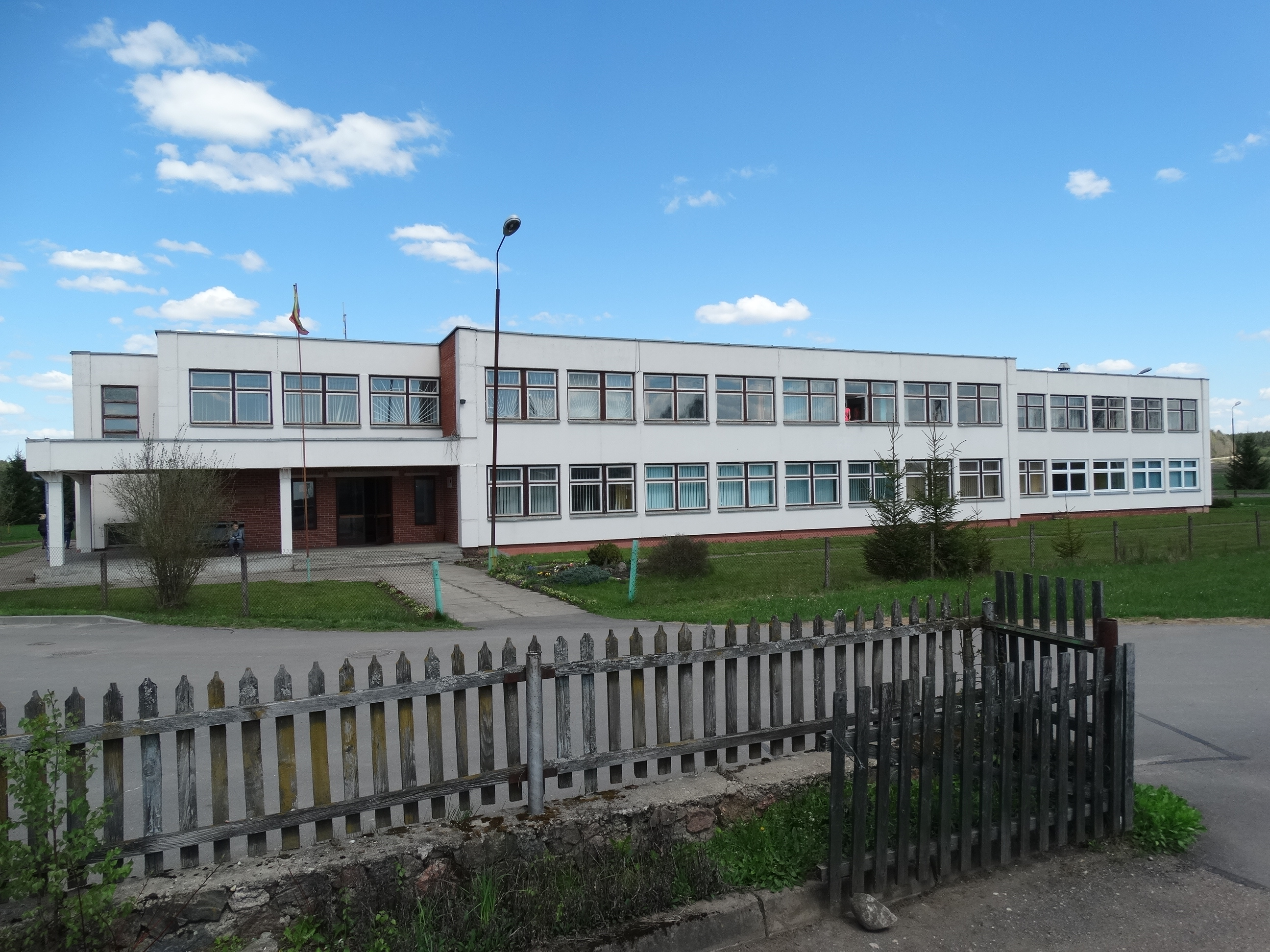 School, Poškonys, Šalčininkai District, Lithuania